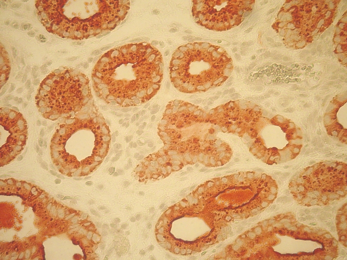 Immunohistochemical localization of ovine uterine serpin in the endometrium of an ovariectomized ewe treated with progesterone for 60 days.